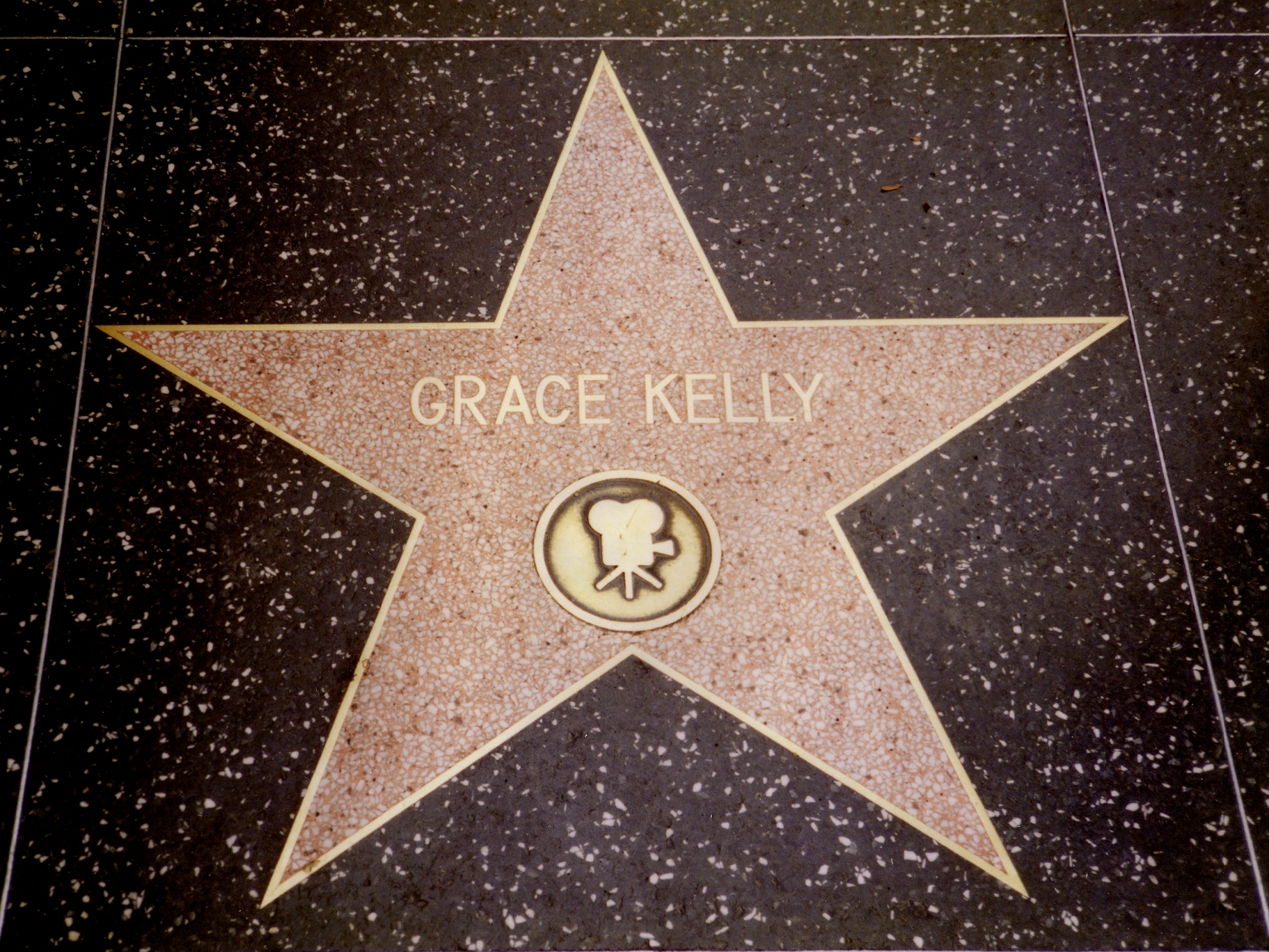 Grace Kelly's star on the Hollywood Walk of Fame, 6329 Hollywood Blvd.